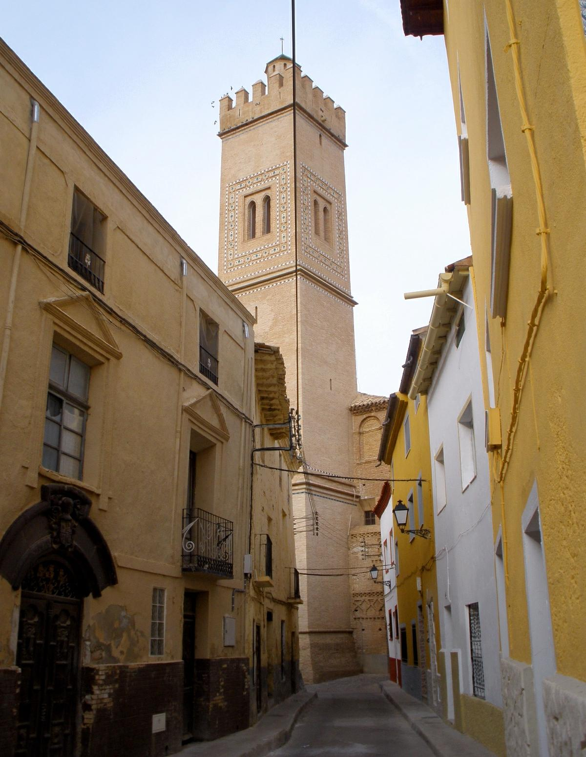 Iglesia de la Asunción, Longares (Zaragoza, Aragón, España)